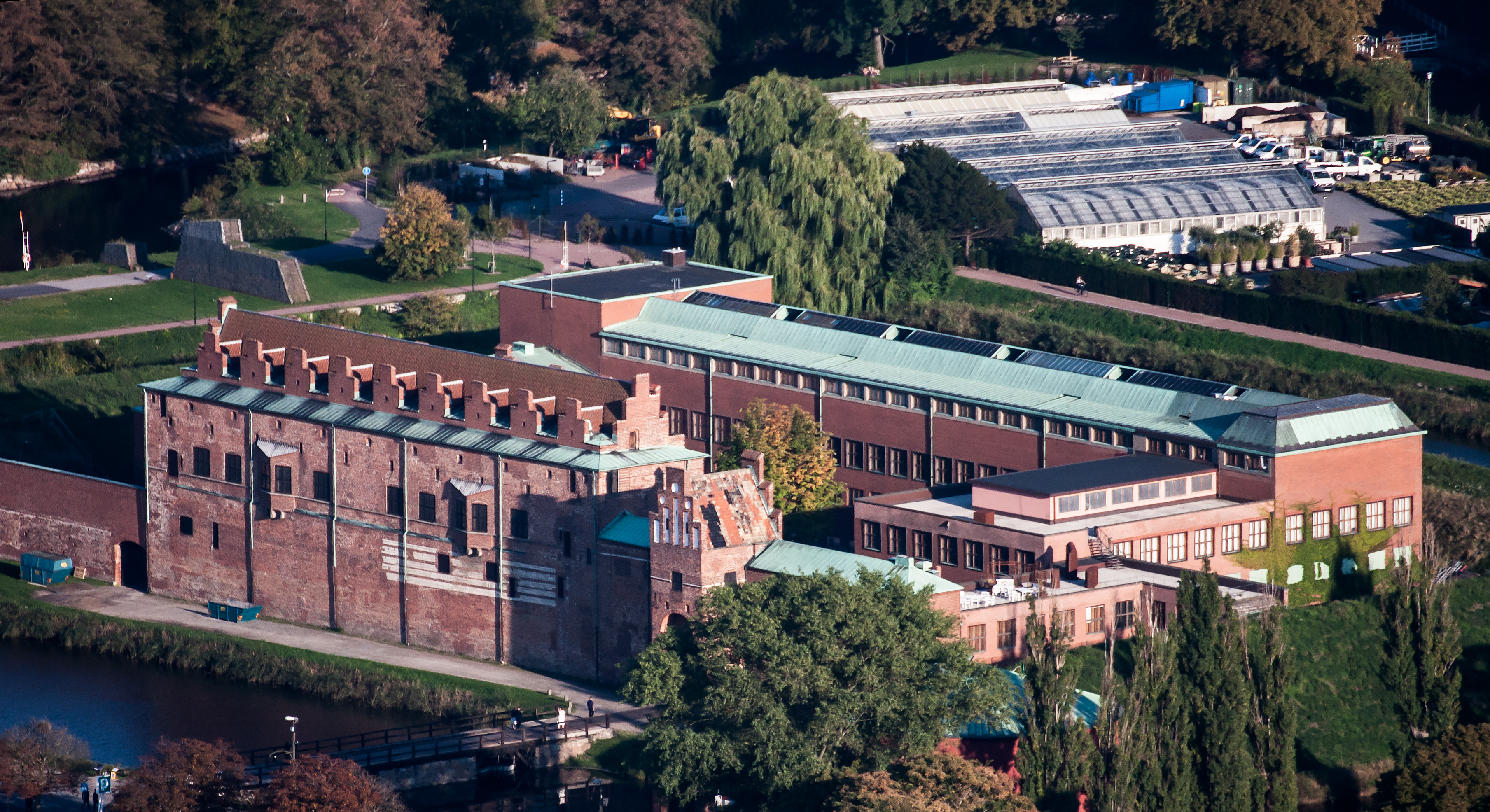 Malmöhus.